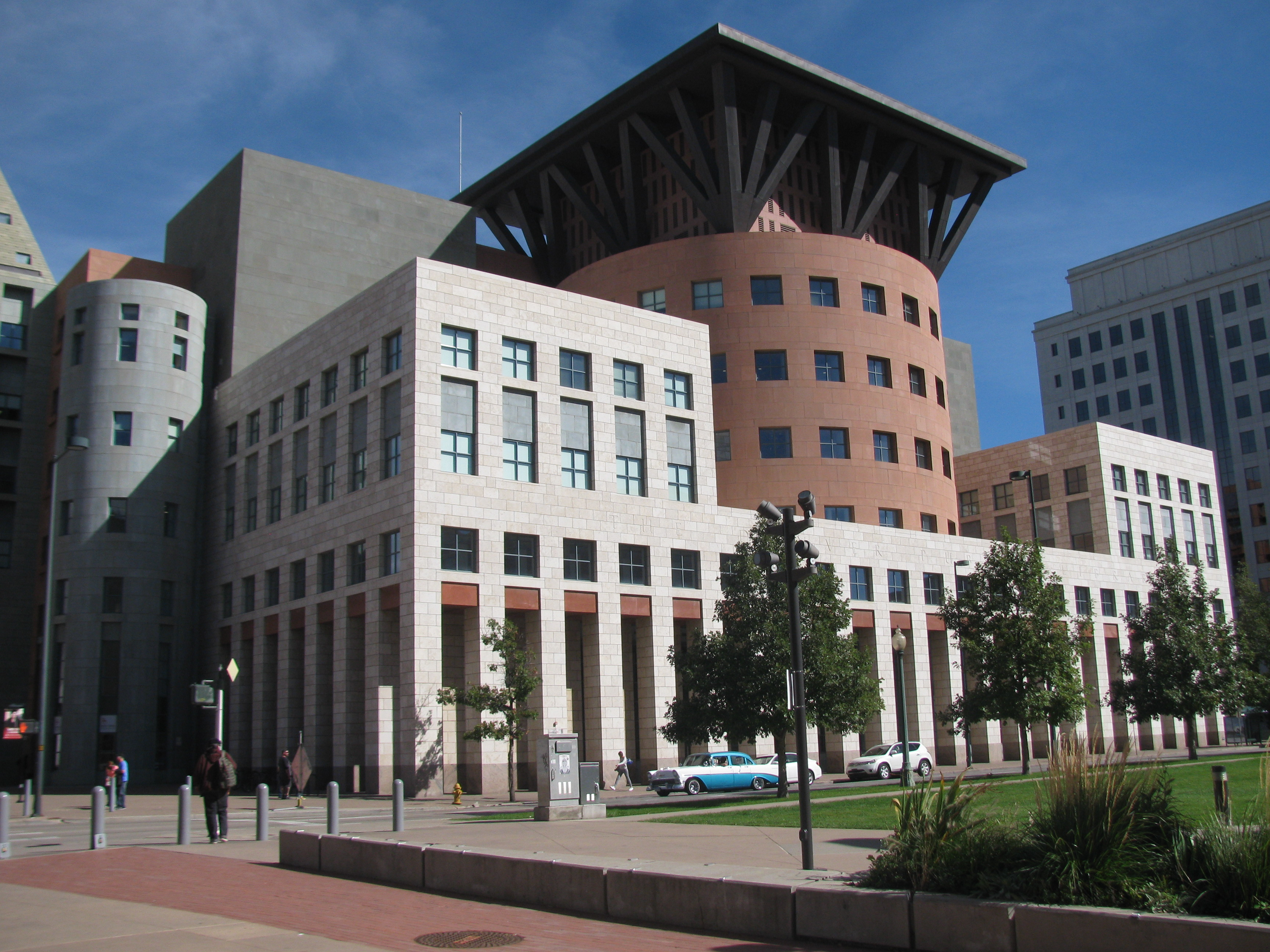 Denver Central Library, main library of Denver Public Library system.